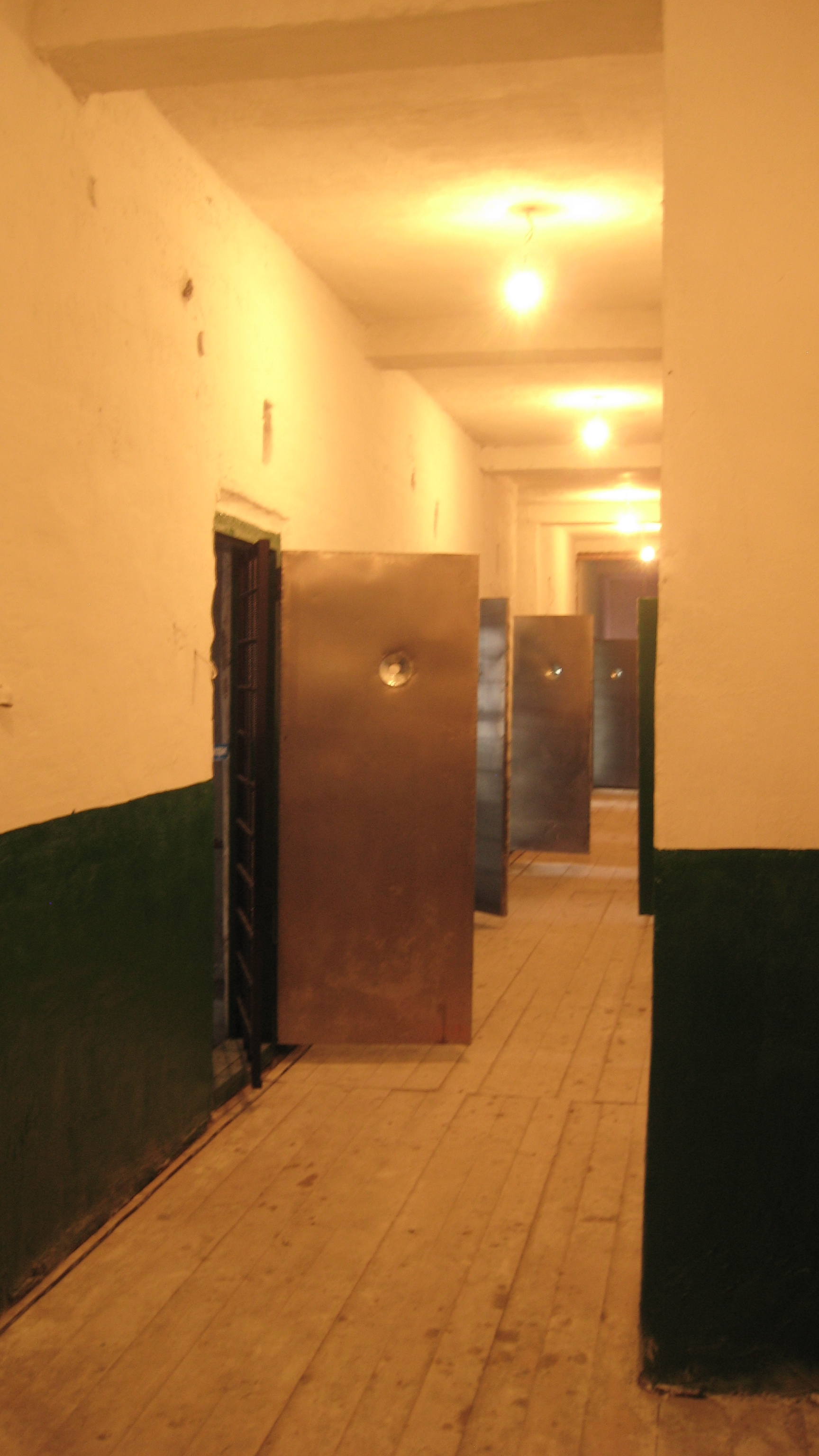 The prison cells at Perm-36. Used until the middle of the 1980s. In September 1985, Wassyl Stus died her as one of the last political prisoners of the Sowjet Union by starving and freezing, four month after Gorbatschev came in power.